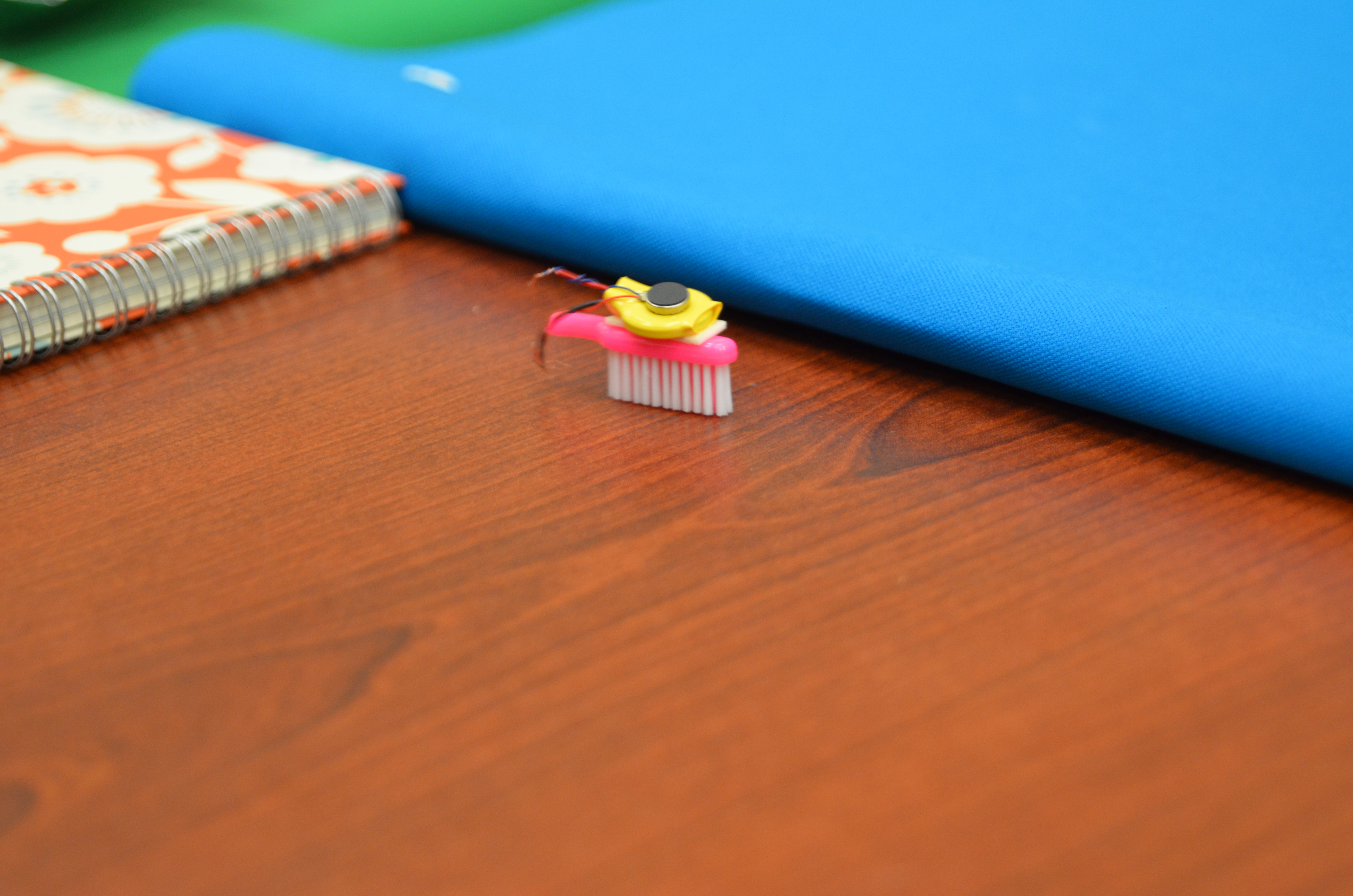 April 26, 2014 - Kent State University Library